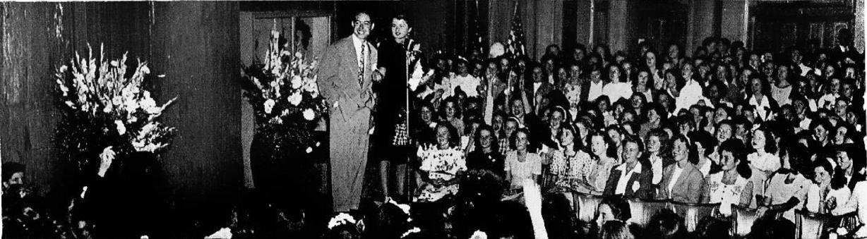 Andy Russell, personal appearance, 1944.